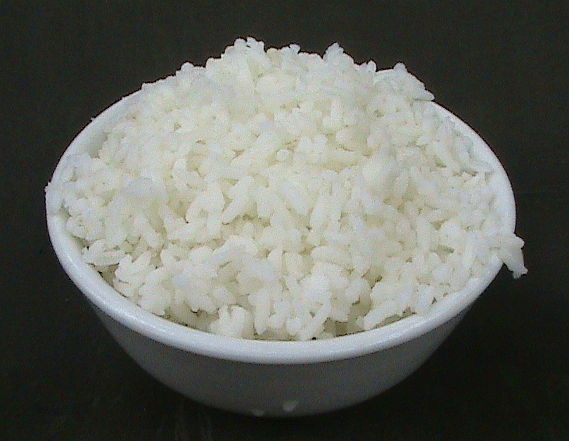 Standard bowl of steamed white steamed rice as sold internationally. This image is from a restaurant in Haikou, Hainan, China.